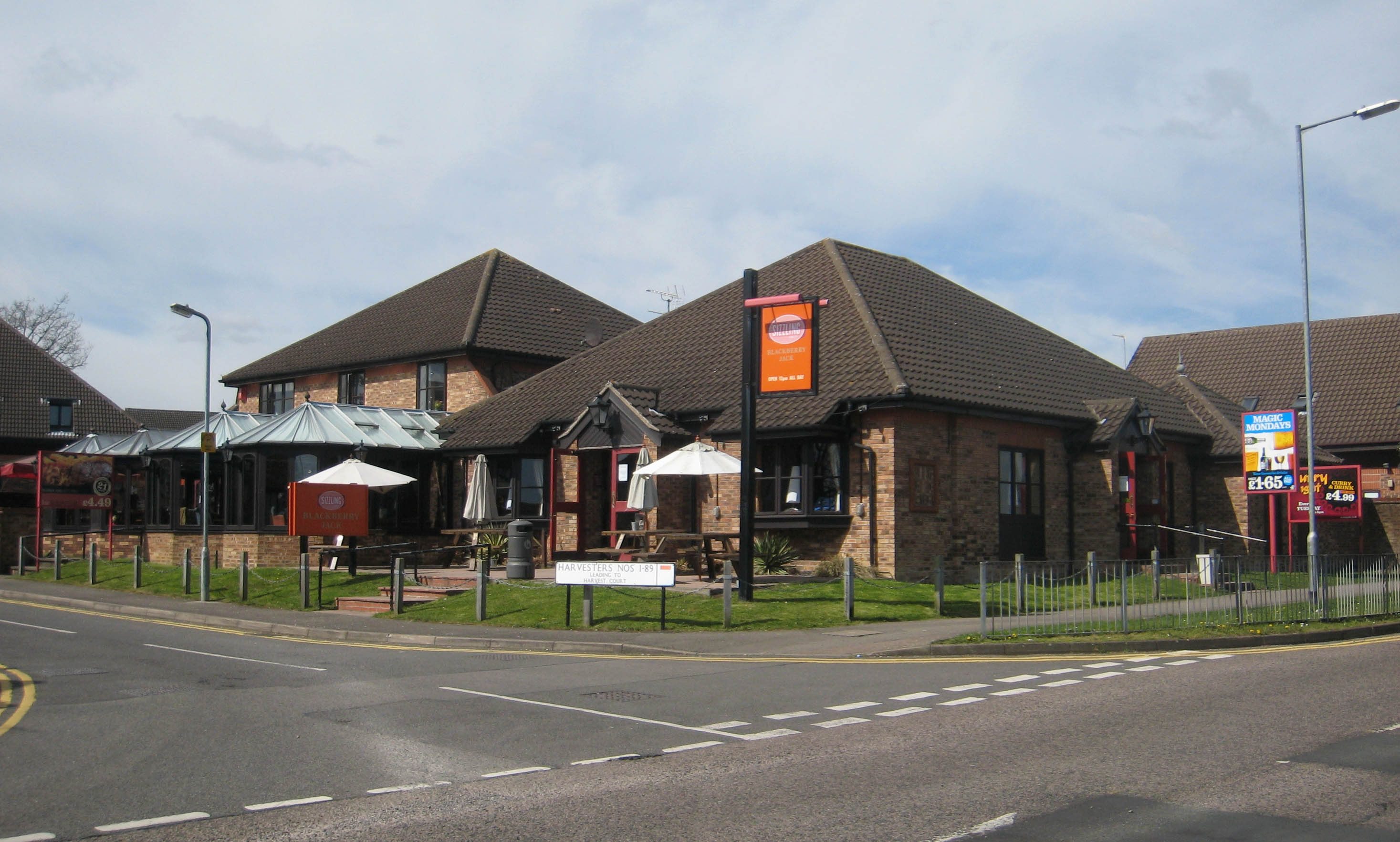 The Blackberry Jack pub, Jersey Farm, St Albans